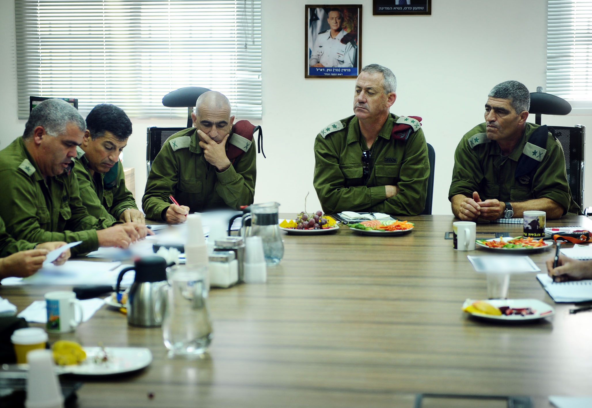 August 19, 2011 IDF Chief of Staff Lt. Gen. Benny Gantz evaluated the security situation on a visit to the Southern Command and Gaza Division. The meeting was attended by commander of the Southern Command, Maj. Gen. Tal Russo, and the IDF Spokesman Brig. Gen. Yoav Mordechai. Photo: Sgt. Ori Shifrin, IDF Spokesperson Unit.